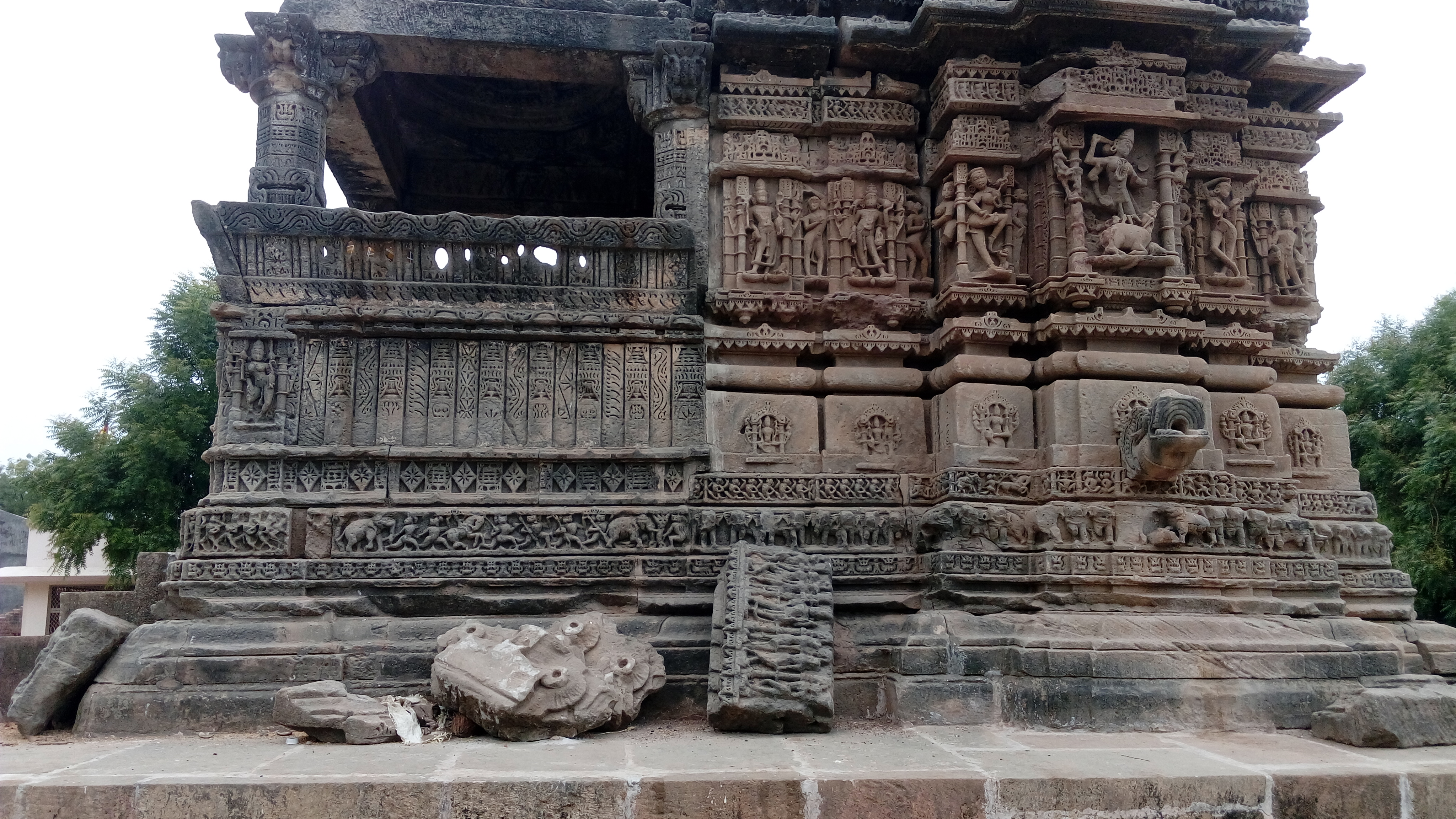 Adhishthana (base) from north, Shitala Mata Temple, Buttapaldi, Mehsana district, Gujarat, India